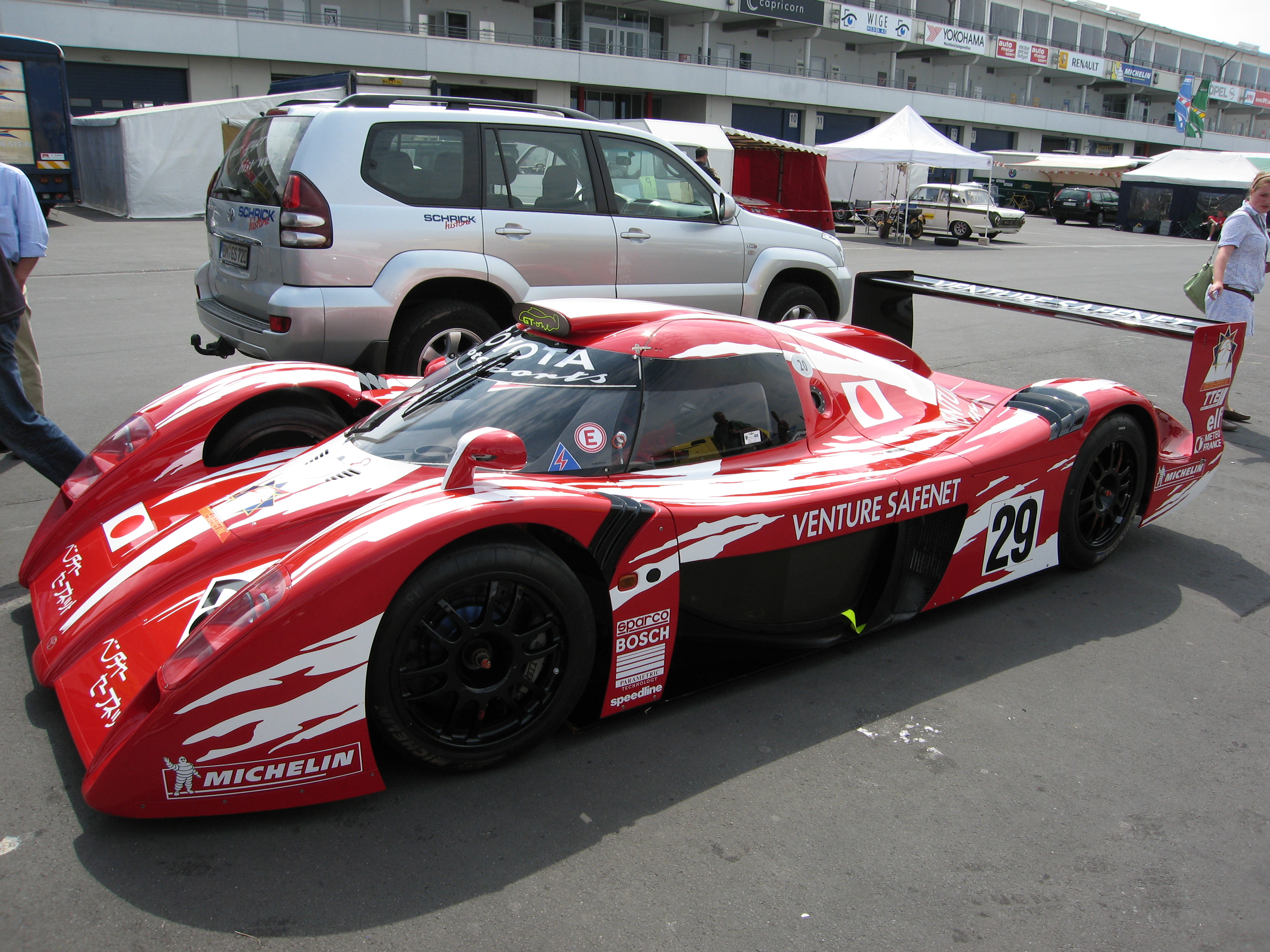 A Toyota GT-One.